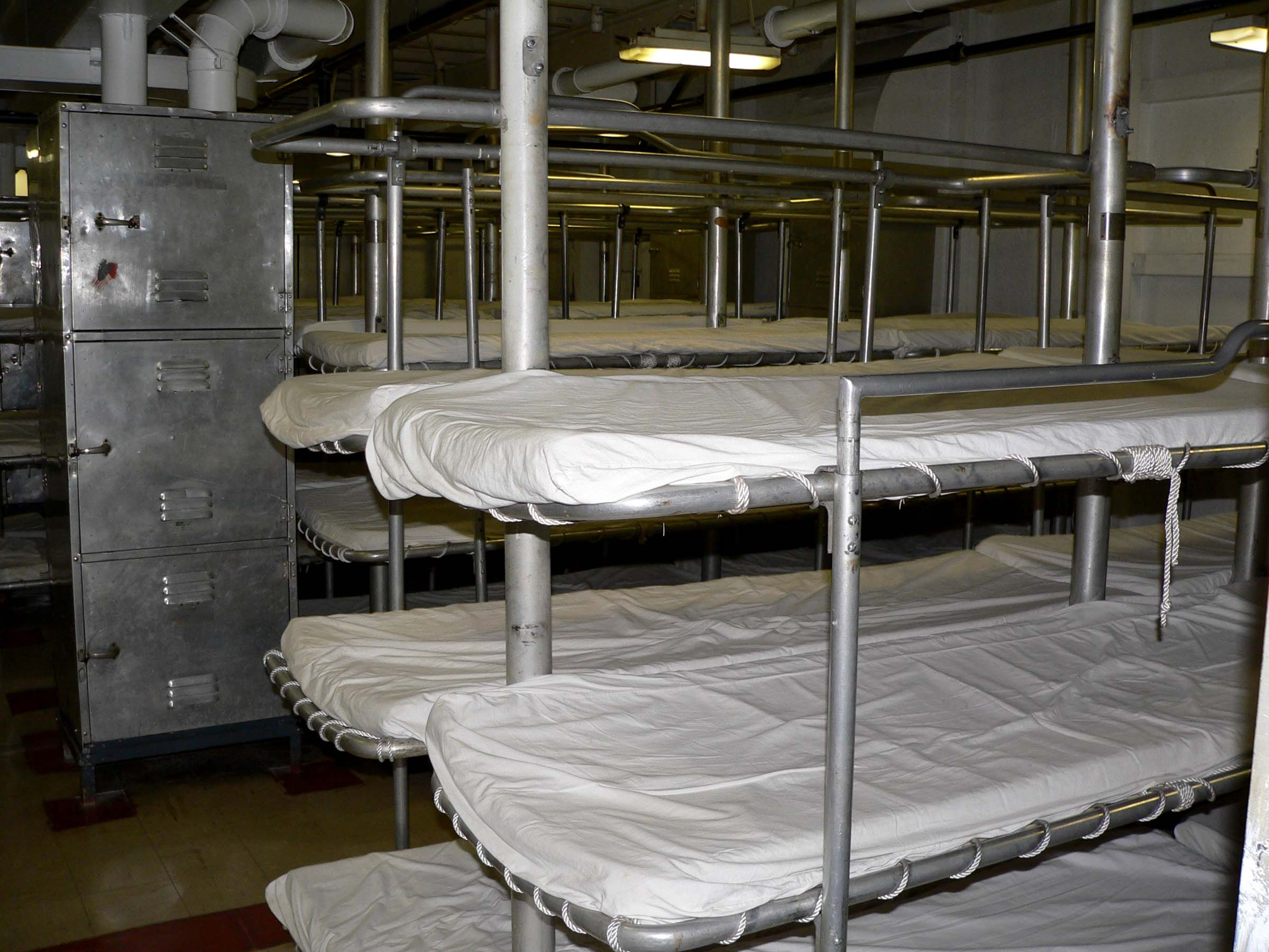 Photo of USS Hornet (CV-12) enlisted bunks